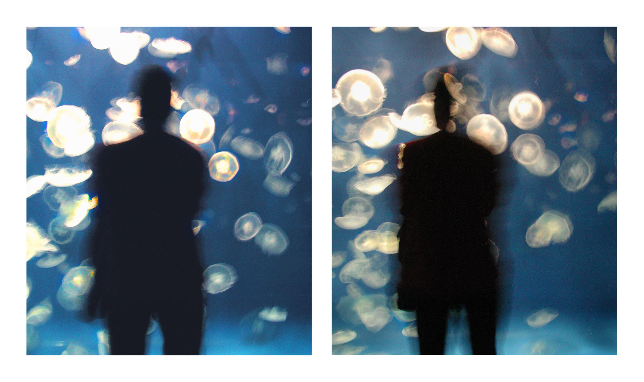 Share Your Vision Image